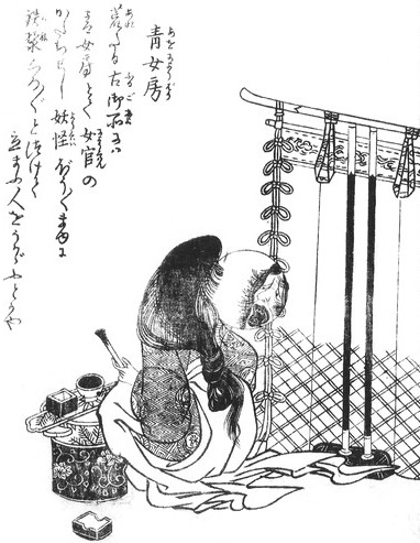 Aonyōbō (青女房, a female ghost who lurks in an abandoned imperial palace) from the Konjaku Gazu Zoku Hyakki (今昔画図続百鬼)